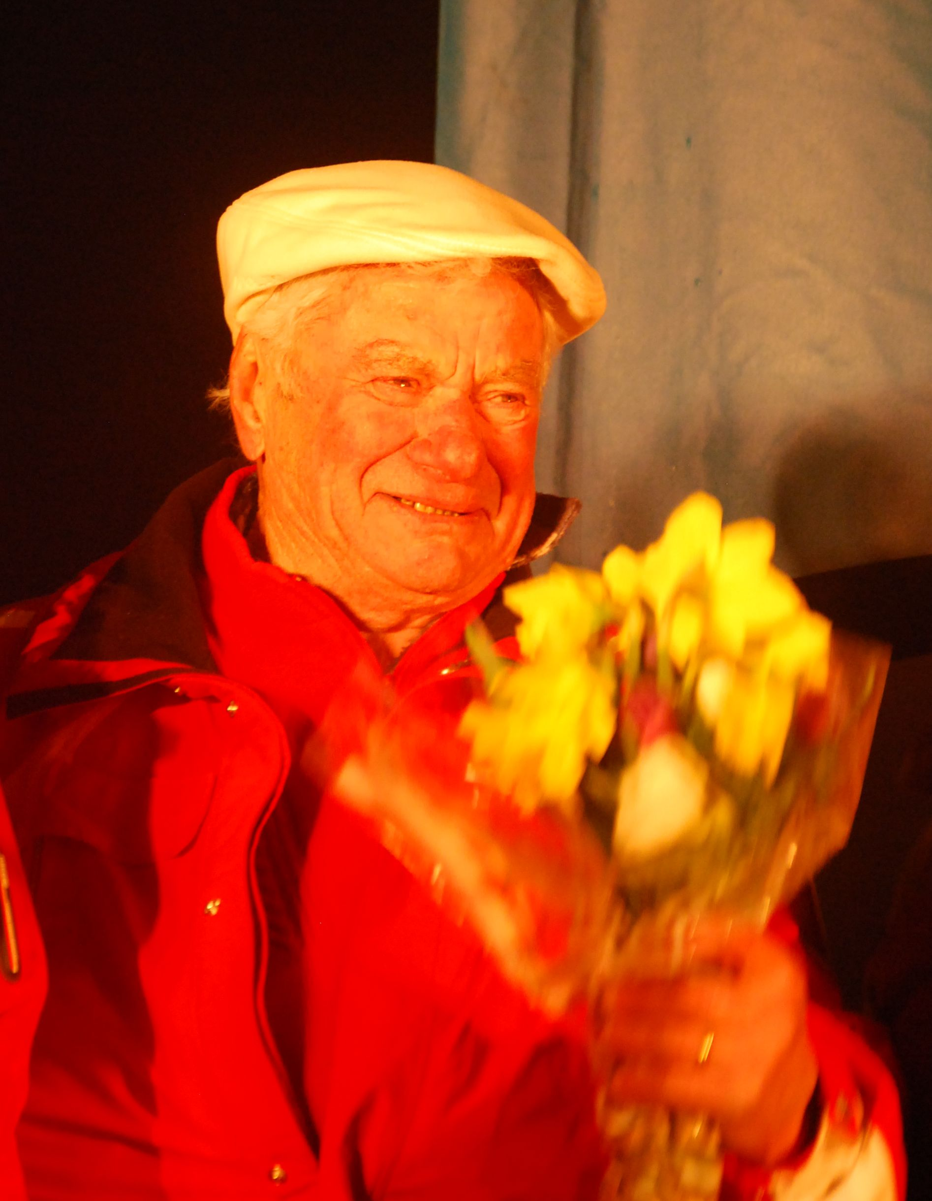 Régis Rey, during a ceremony in honor of Coline Mattel to return Contamines with his Olympic medal, with the reminder list of the champions Contamines, including Régis Rey and Robert Rey.